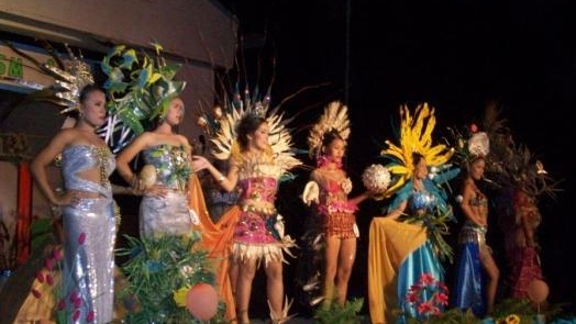 Bonawon Palaran Festival Beauty Pageant Participants